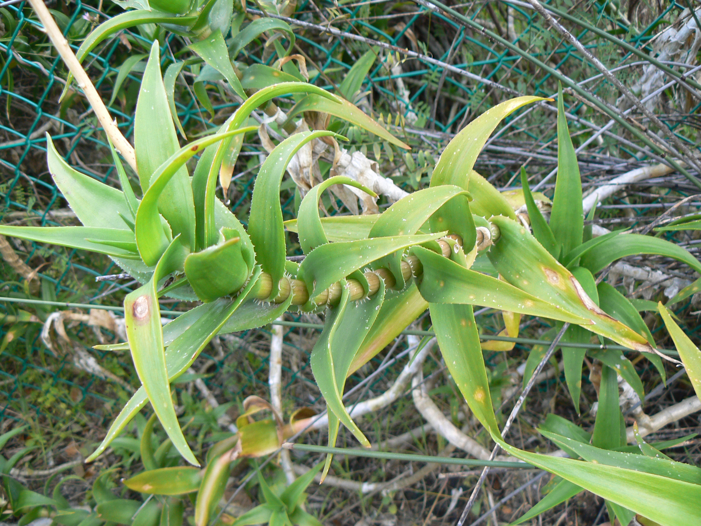 Climbing aloe ( Aloe ciliaris)